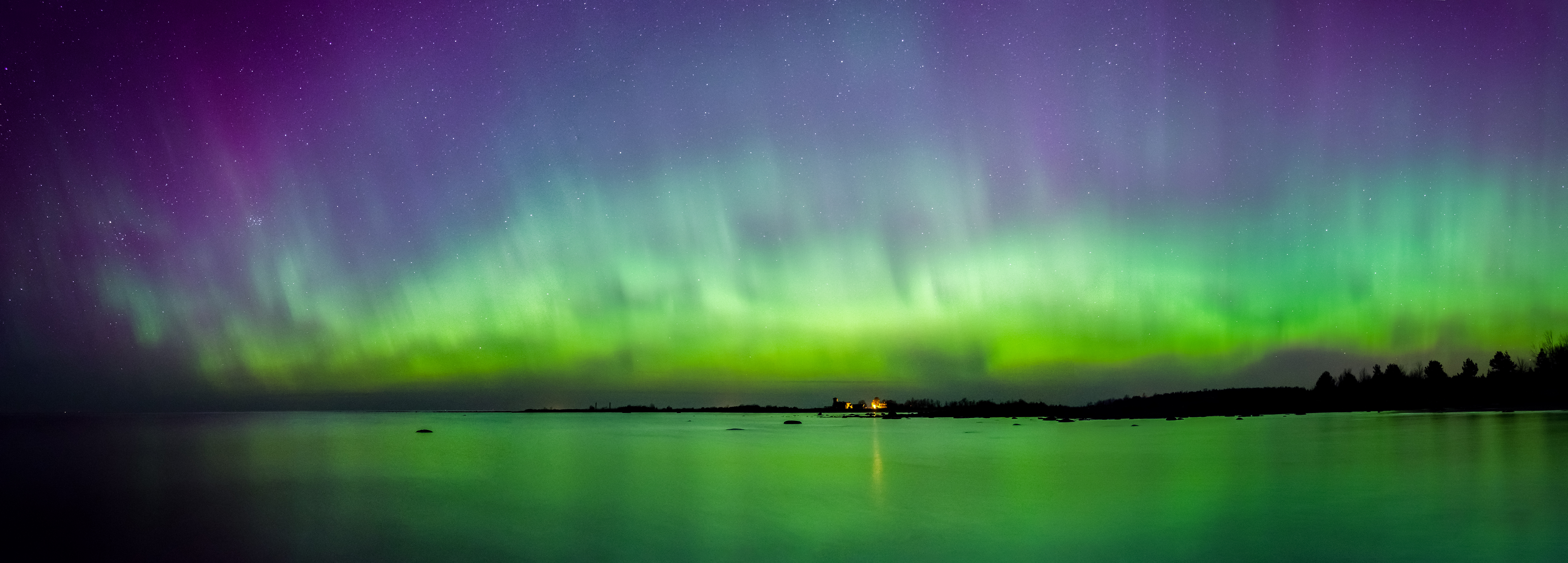 Aurora Borealis in Estonia